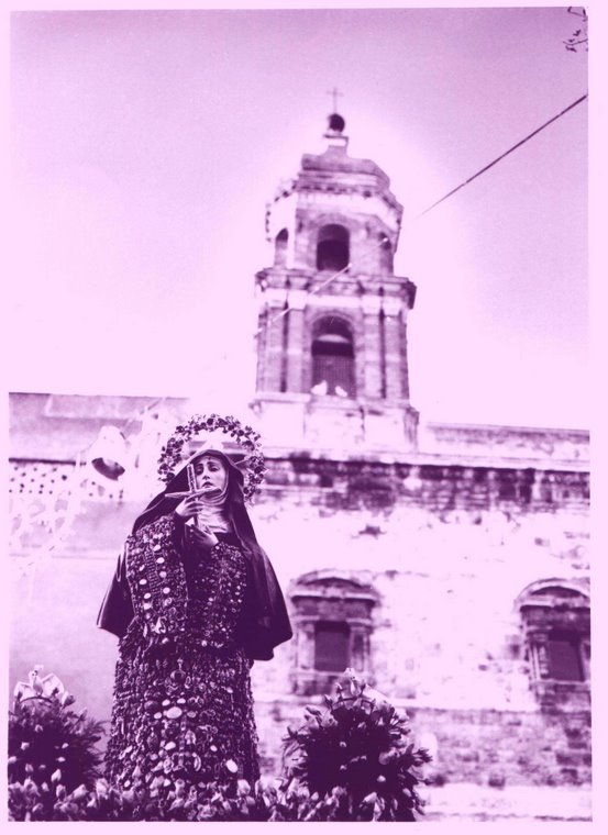 Processione di Santa Rita da Cascia e i SS. Medici Cosma e Damiano la I° domenica di ottobre